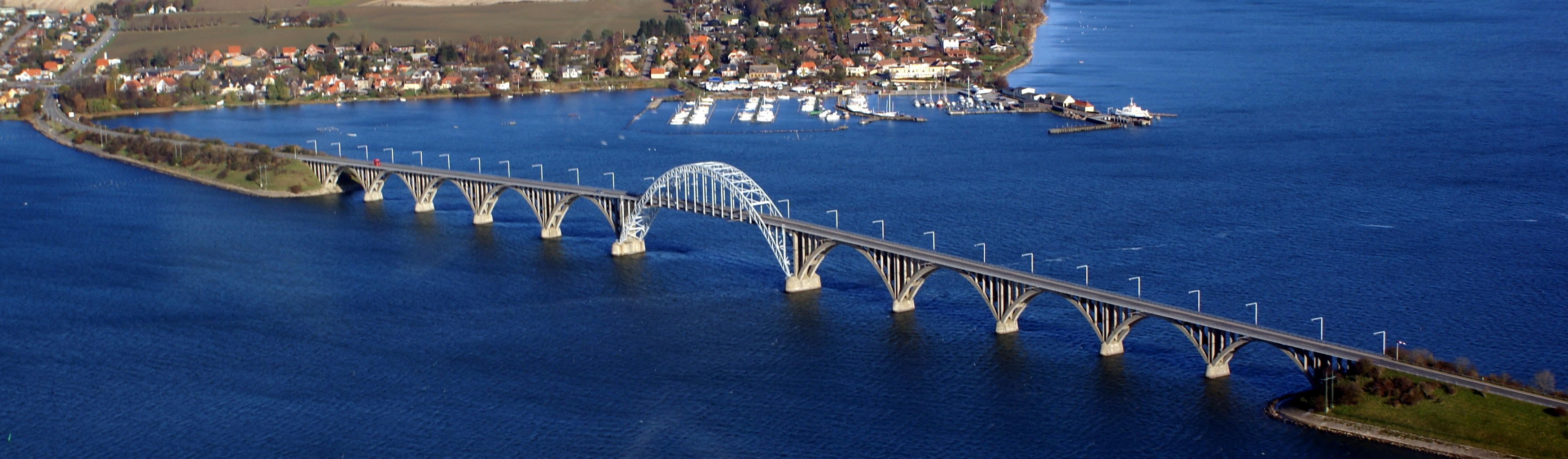 The bridge of Queen Alexandrine.